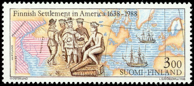 Postage stamp celebrating the 350th anniversary of Finnish settlements in America